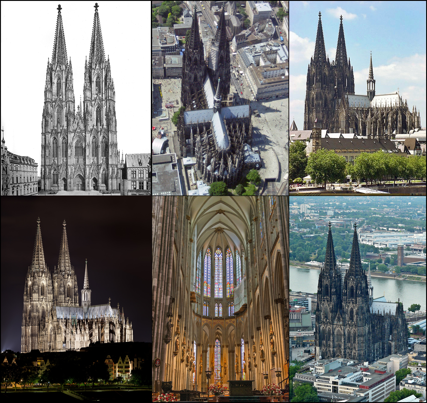 Cologne Cathedral, Rayonnant Gothic (1248-1880), Cologne, Germany